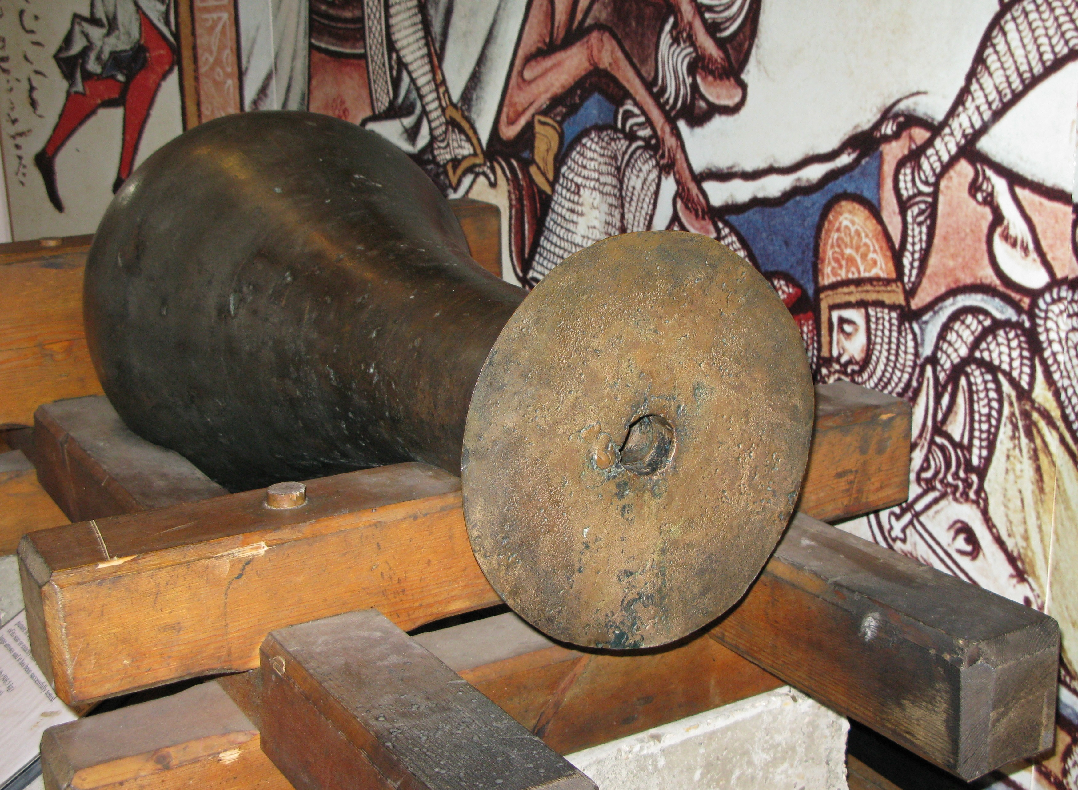 photo of a reconstruction of a bronze vase cannon that fired arrows